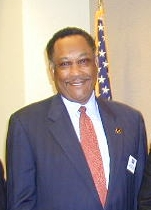 Lee P. Brown, Mayor of Houston, Texas